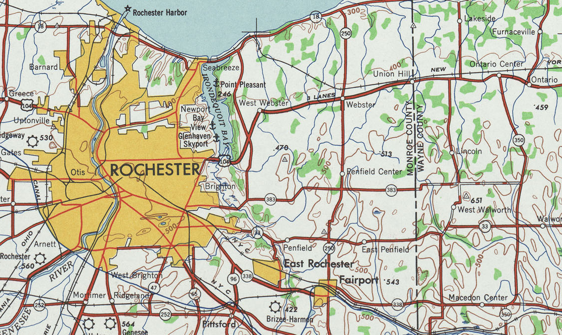 Cropped section of the United States Geological Survey's 1947 1:250,000 scale topographic map of Rochester, New York. This crop is intended to depict the former extension of NY 383 east of the city of Rochester, but may be useful for other situations as well.